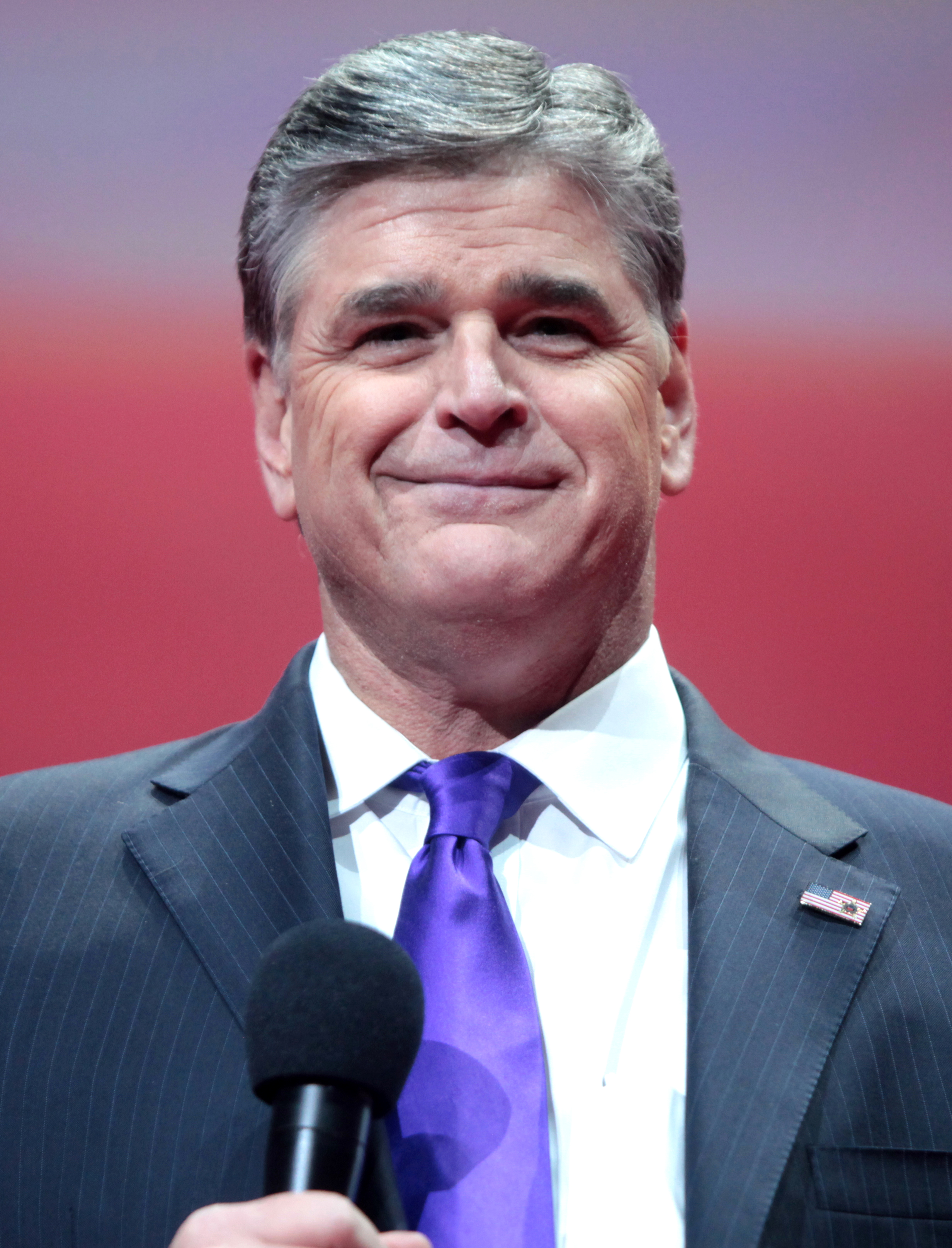 Sean Hannity speaking at an event in Greenville, South Carolina.